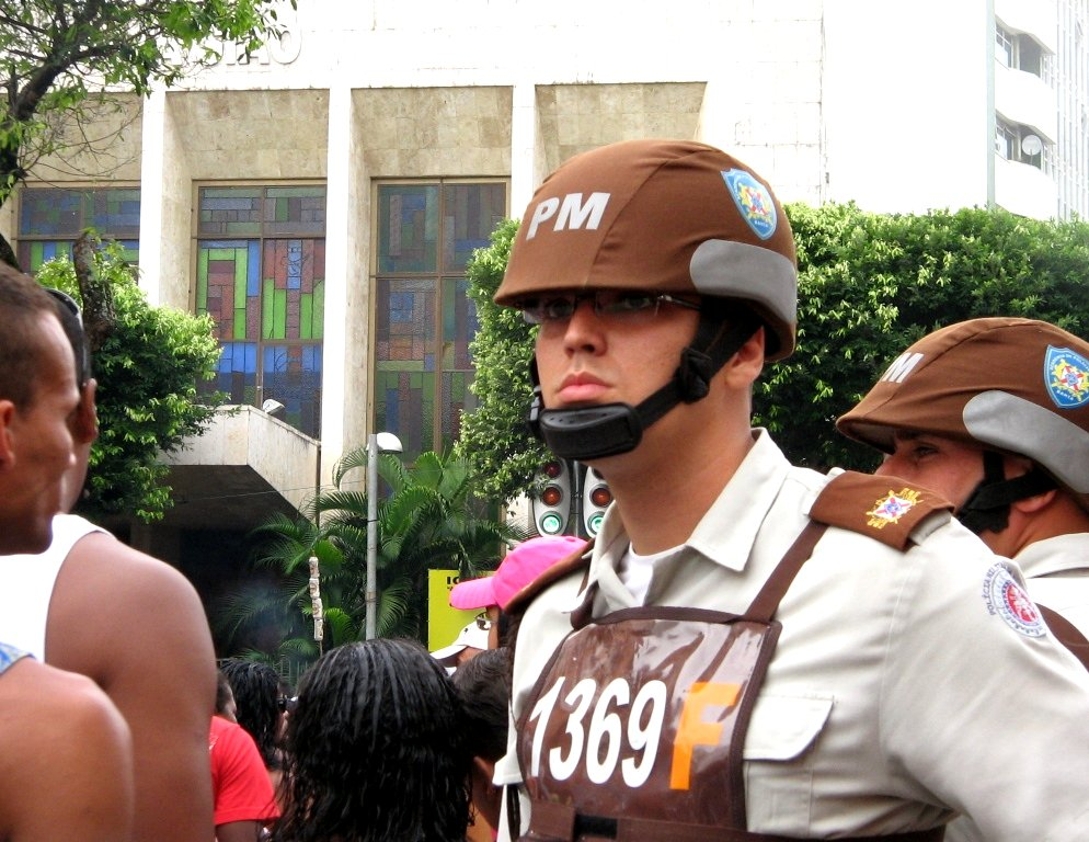 PMBA Student of Academy of Military Police watching the VI Salvador Gay Parade. Original, translated: "Watching - The PM, fulfill the duty to maintain the "order and the moral precepts" in the area... What would happen if someone offered him a colorful flag?"